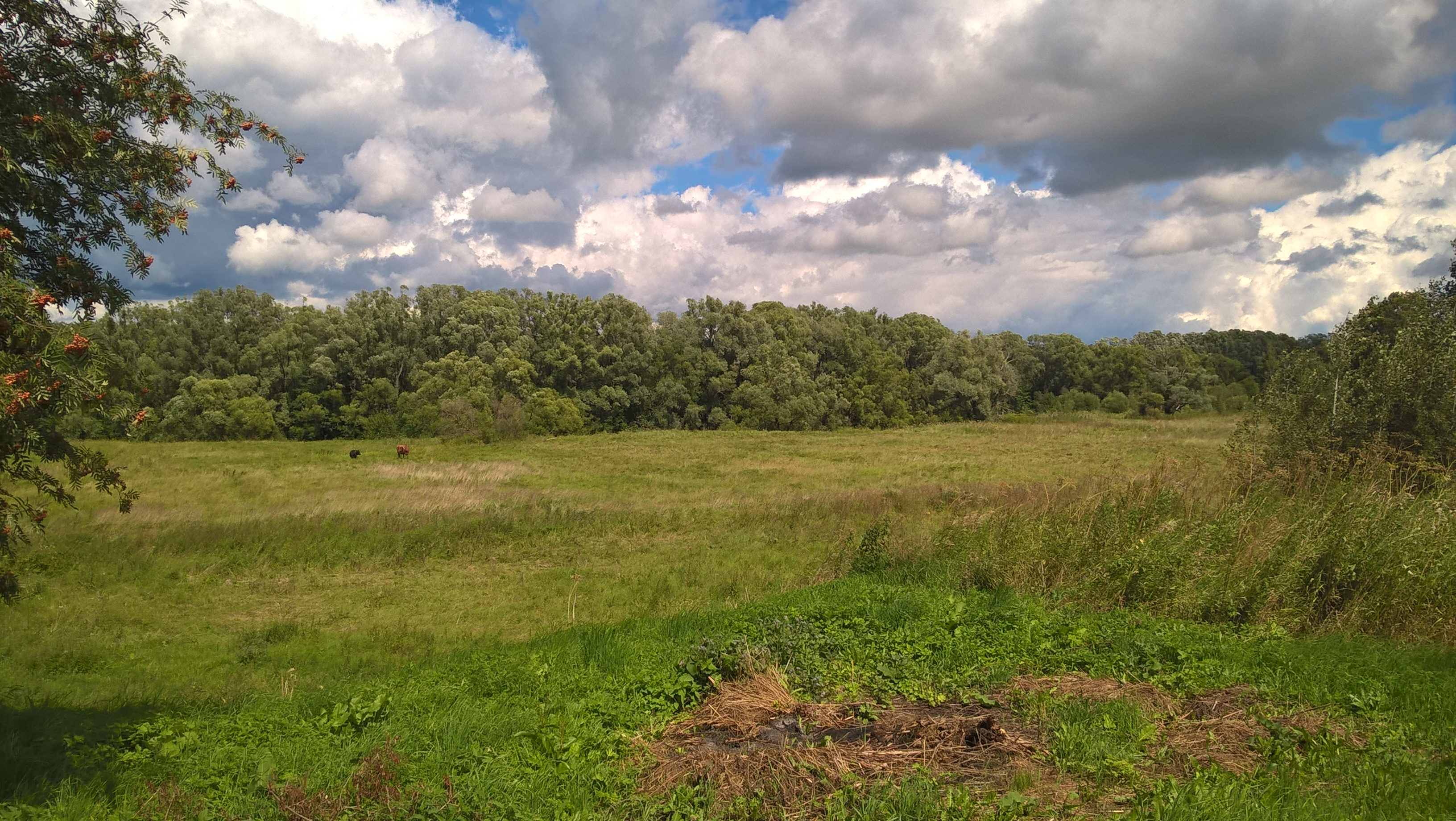 Starosel'e views of the river Serena.